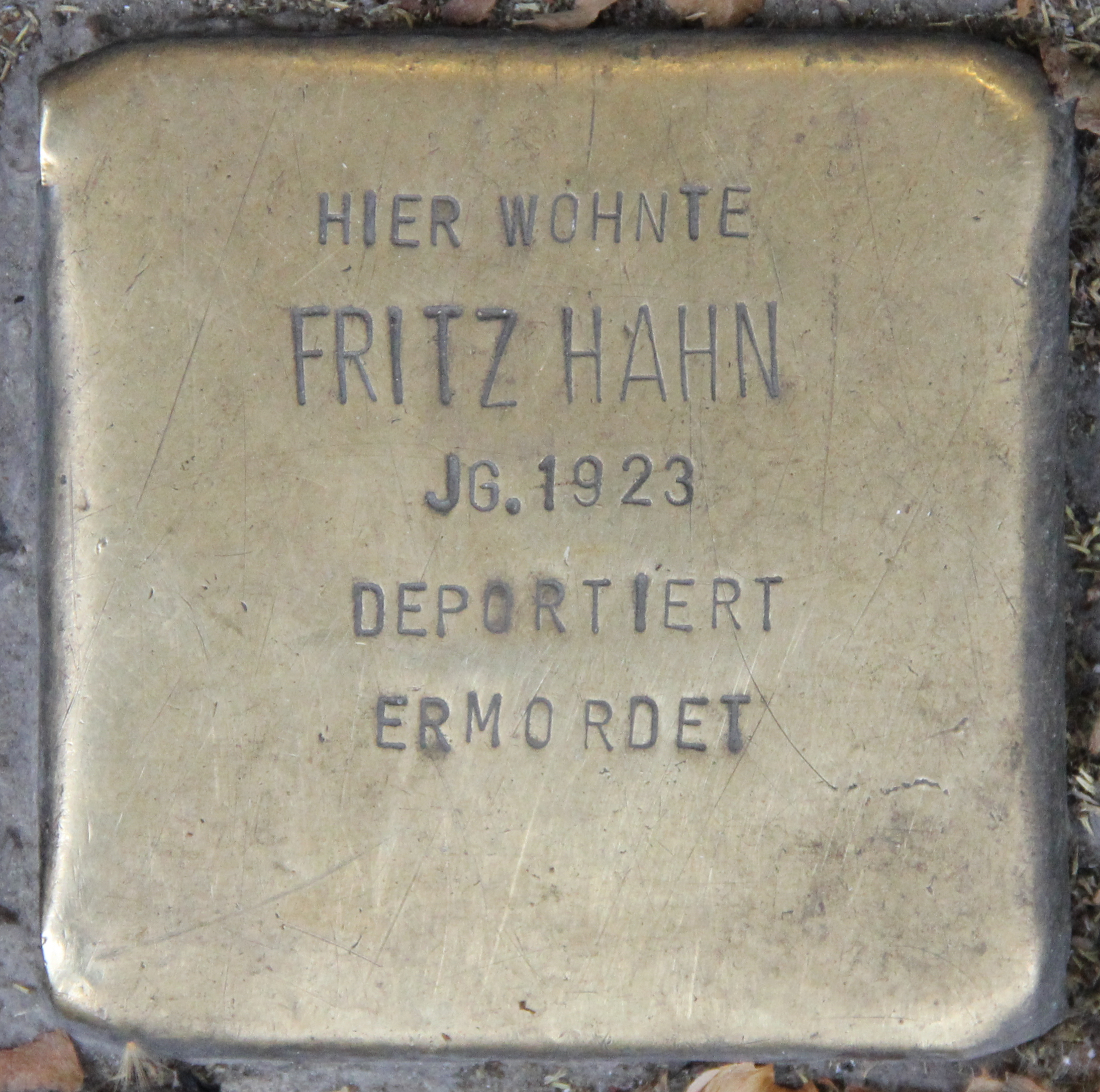 "Stolperstein" (stumbling block), Fritz Hahn, Tauentzienstraße 13a, Berlin-Charlottenburg, Germany